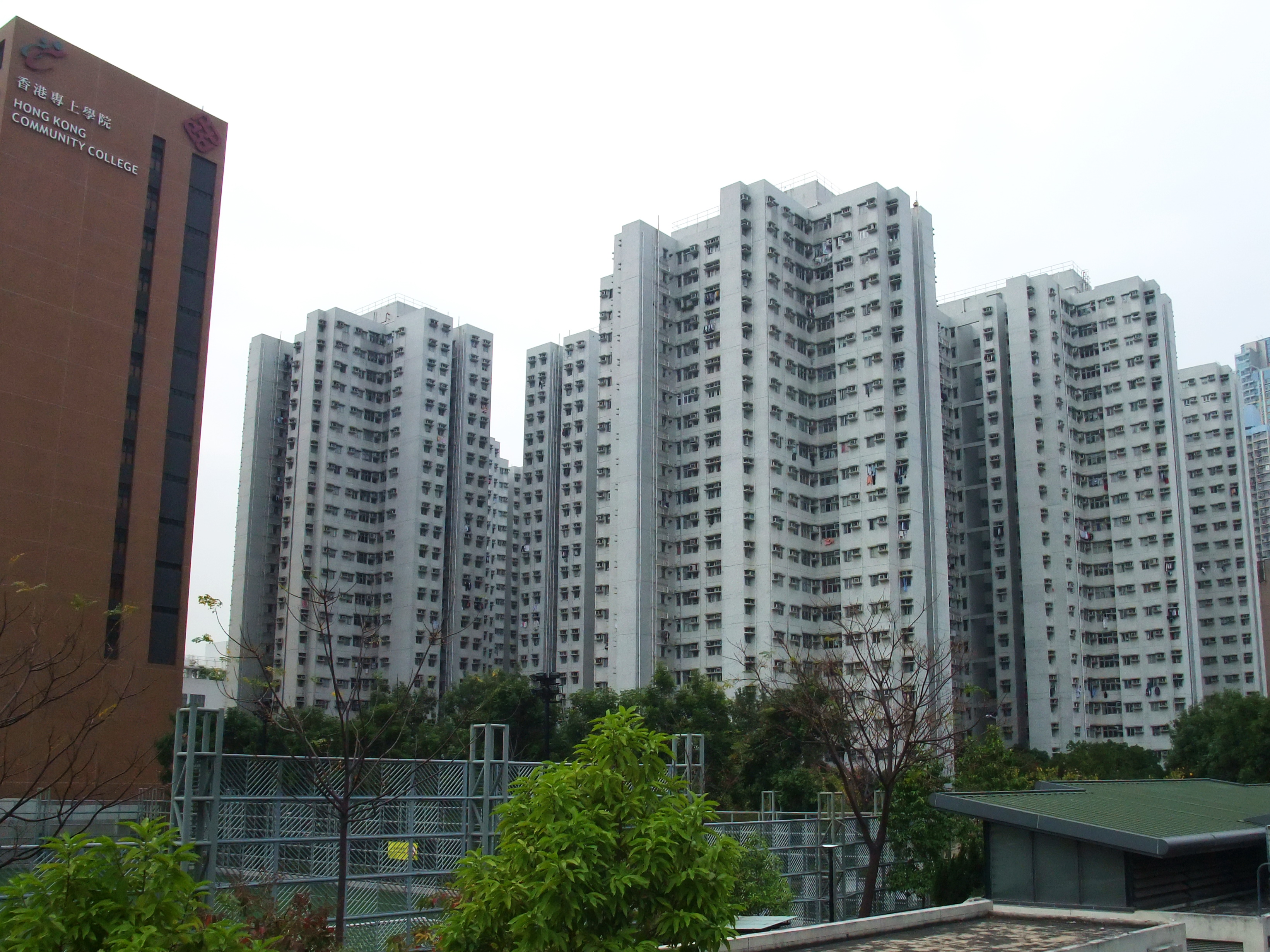 South side of Charming Garden, Yau Ma Tei, Kowloon, Hong Kong.